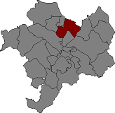 Location of Torrelavit in Alt Penedès